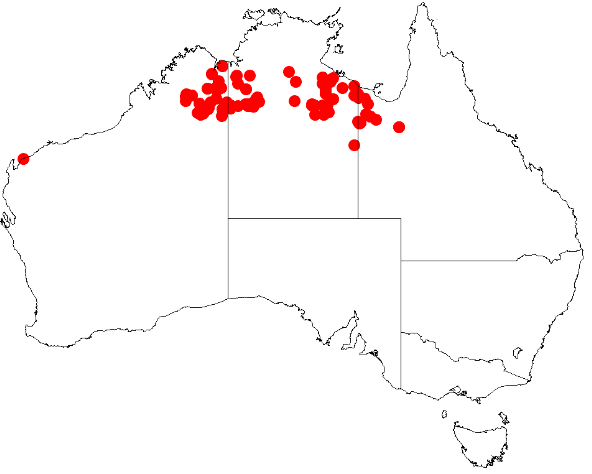 Acacia agyraea Occurrence data from Australasian Virtual Herbarium downloaded on 8 December 2018